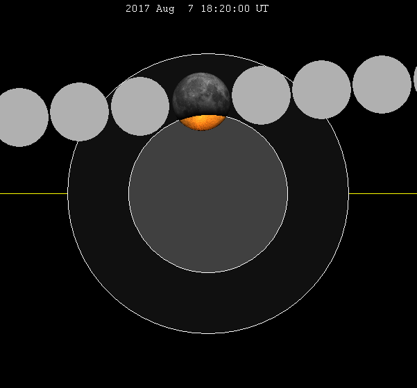 August 2017 lunar eclipse chart of moon's path through the earth's shadow. thumb